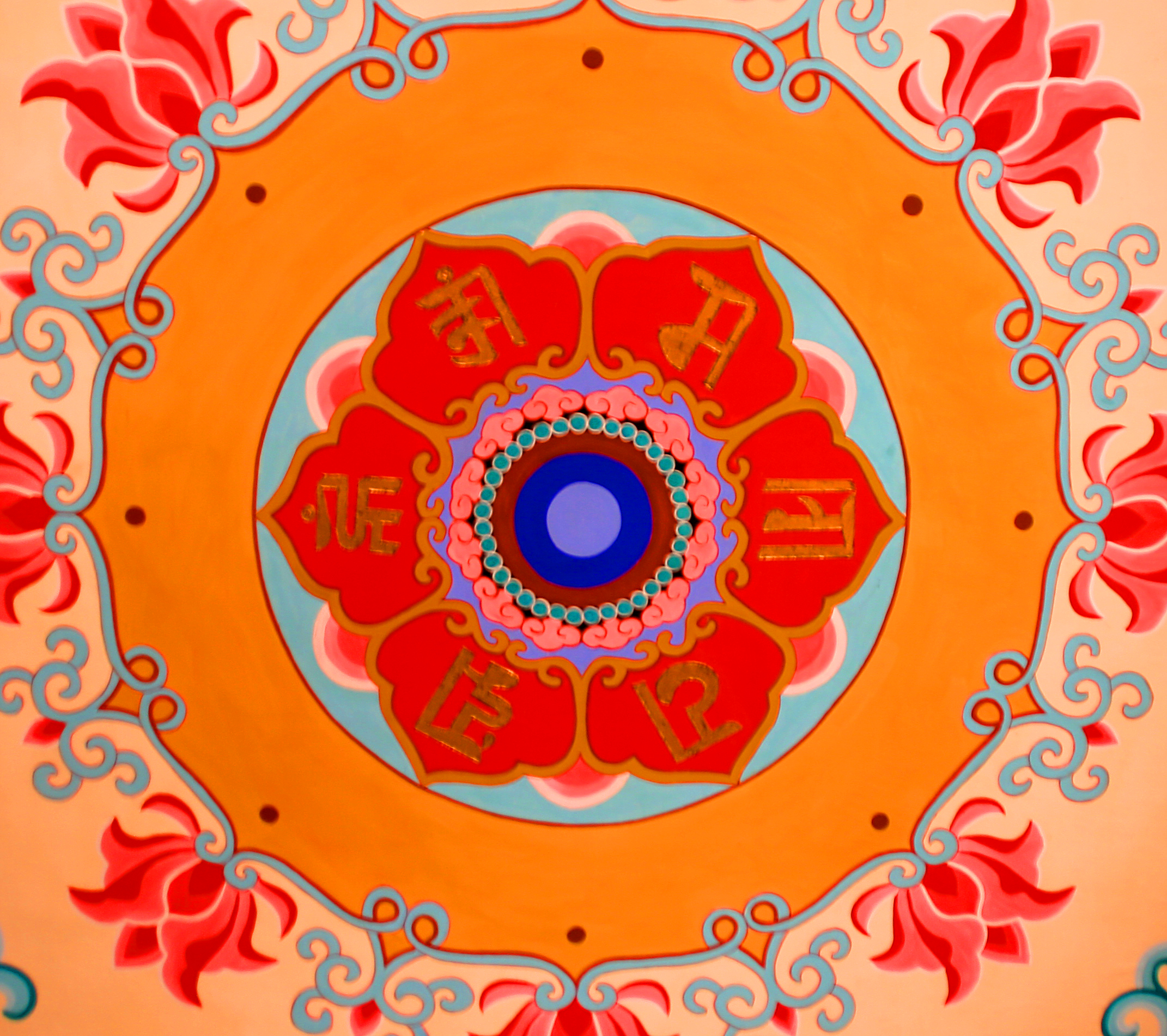 Lotus flower design with Sanskrit syllables in the Ranjana script, at a Buddhist temple in Tianjin, China. The syllables are "om ma ni pa dme hum", that is, the Buddhist mantra "om manipadme hum."